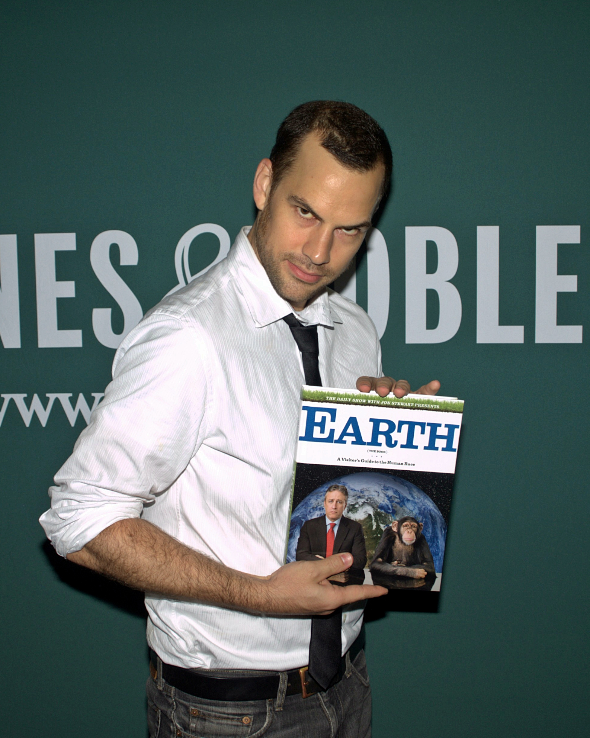 Rich Blomquist at Barnes & Noble Union Square for the launch of Earth (The Book), the 2010 book from the writers of The Daily Show